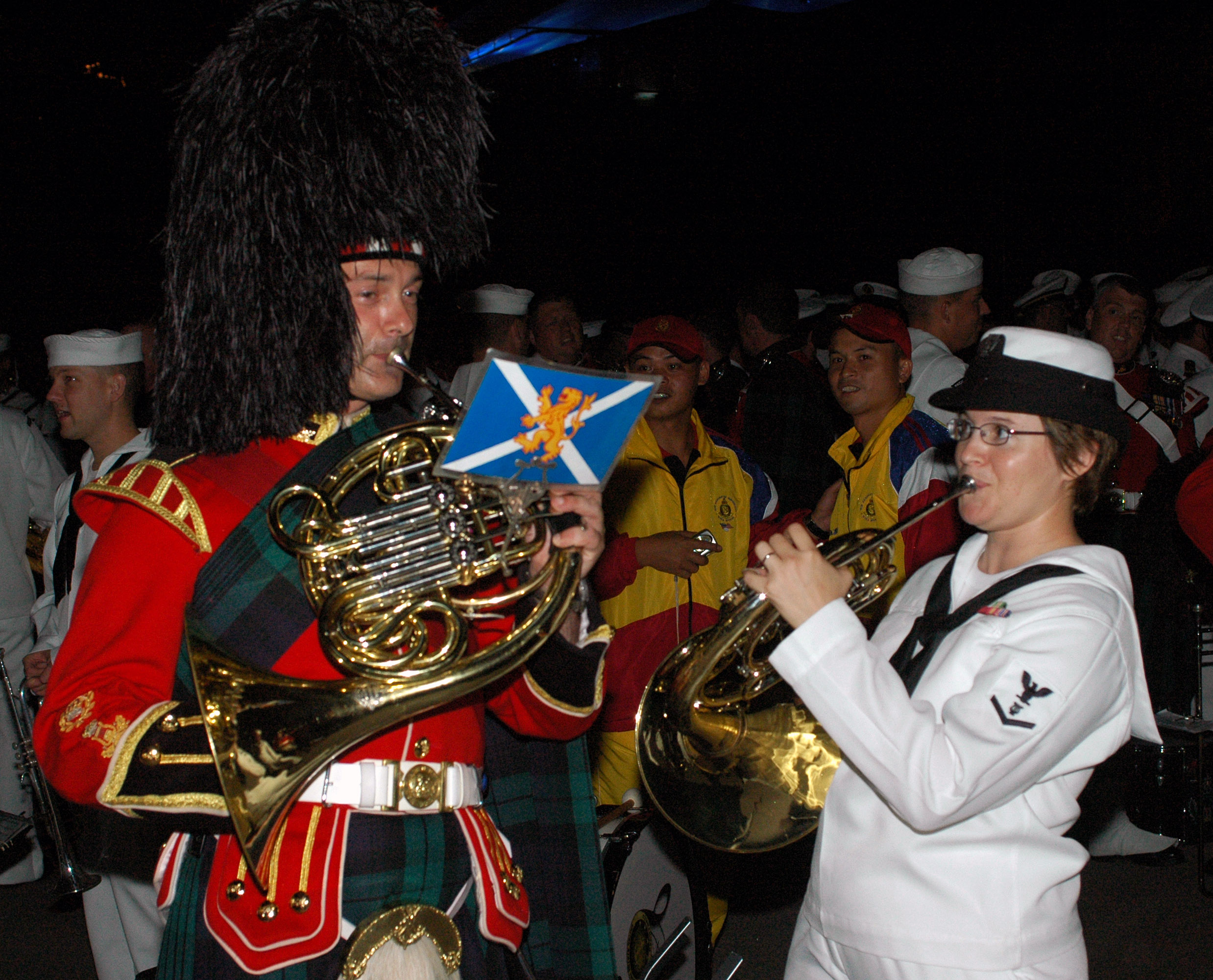 KUALA LUMPUR, Malaysia (Sept. 7, 2007) - Musician 3rd Class Helena Giammarco, a Pacific Fleet band member, plays the French horn backstage with a friend from the Royal Regiment of Scotland following the second night of performances at the Kuala Lumpur International Tattoo 2007. The Tattoo, scheduled for Sept. 6-8, celebrates the 50th anniversary of Malaysia’s independence and features international military bands from the United States, Jordan, Brunei, France, India, the Republic of the Philippines, the Republic of Singapore, the Kingdom of Thailand, Korea, the Islamic Republic of Pakistan, the United Kingdom, and a Maori cultural group from New Zealand. U.S. Navy photo by Mass Communication Specialist 1st Class Shane Tuck (RELEASED)